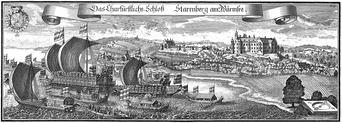 Castle Starnberg and ship Bucentaurus made by Michael Wening in Topographia Bavariae about 1700